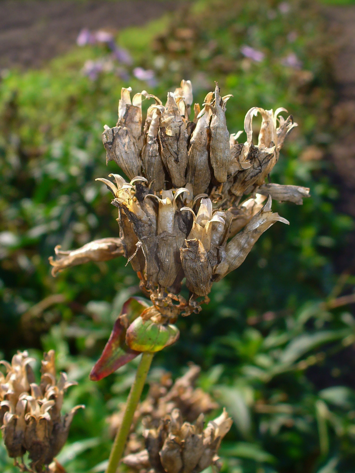 Saponaria officinalis, Caryophyllaceae, Common Soapwort, infrutescence.